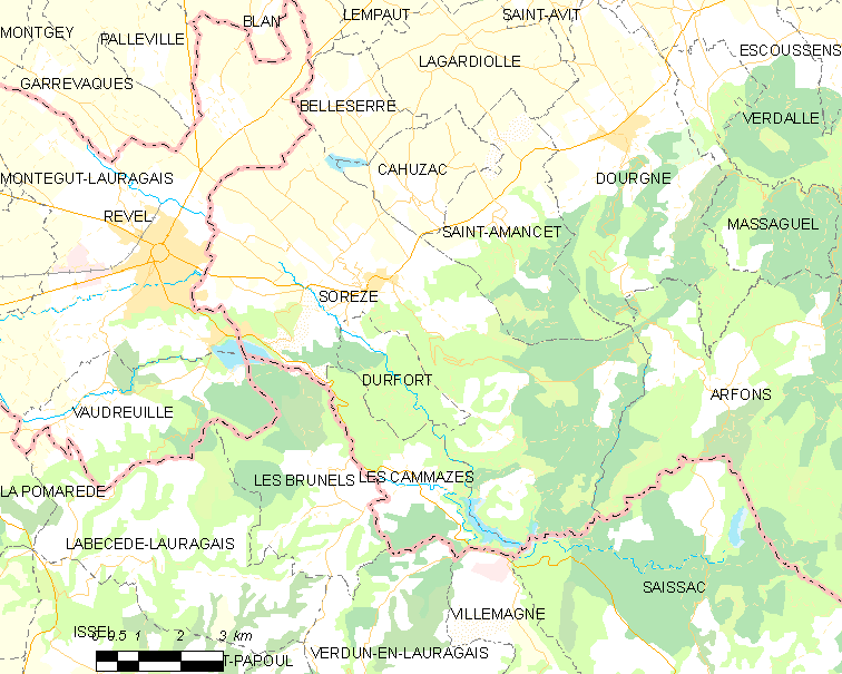 Map commune FR insee code 81288.png - Sorèze